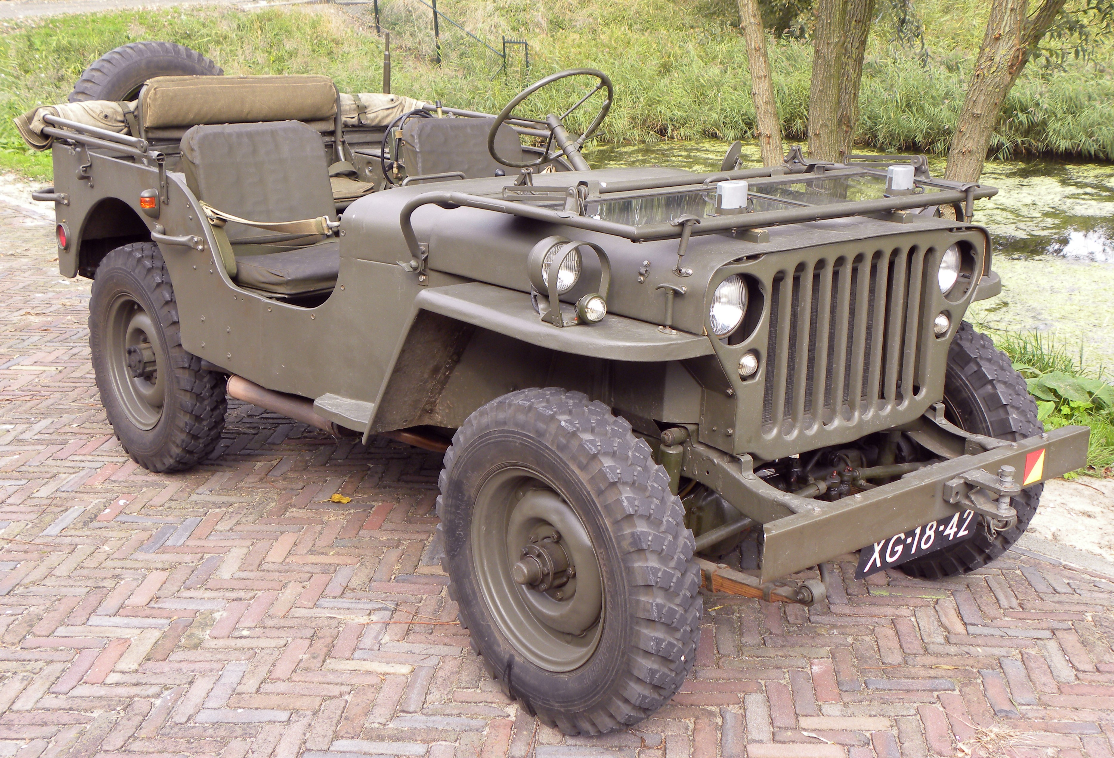 Willys MB Jeep - from 1943 seen at Crash Museum 40 - 45 - Aalsmeerderbrug